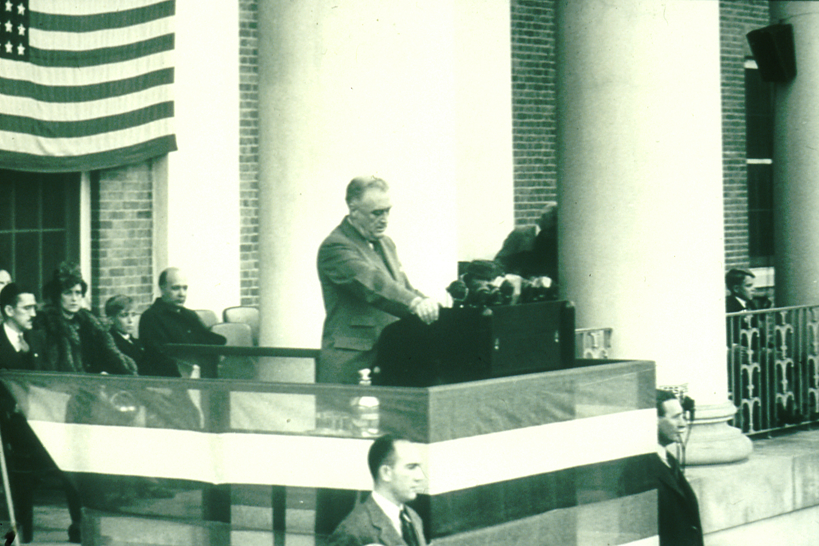 Title Dedication of First Six NIH Buildings Description Image of President Franklin Roosevelt, October 31, 1940, who dedicated the first six buildings of NIH. Topics/Categories Historical, Events Locations, NIH Type B&W, Photo Source National Cancer Institute